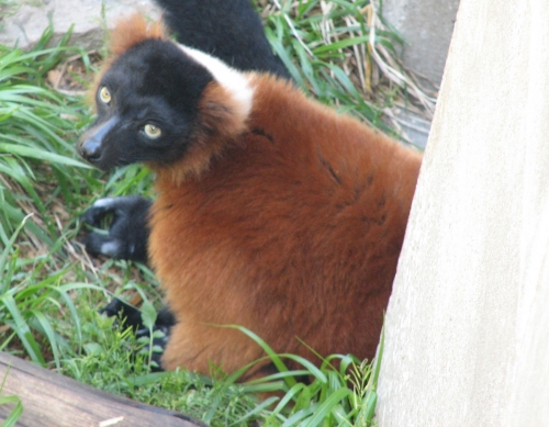 Red Ruffed Lemur